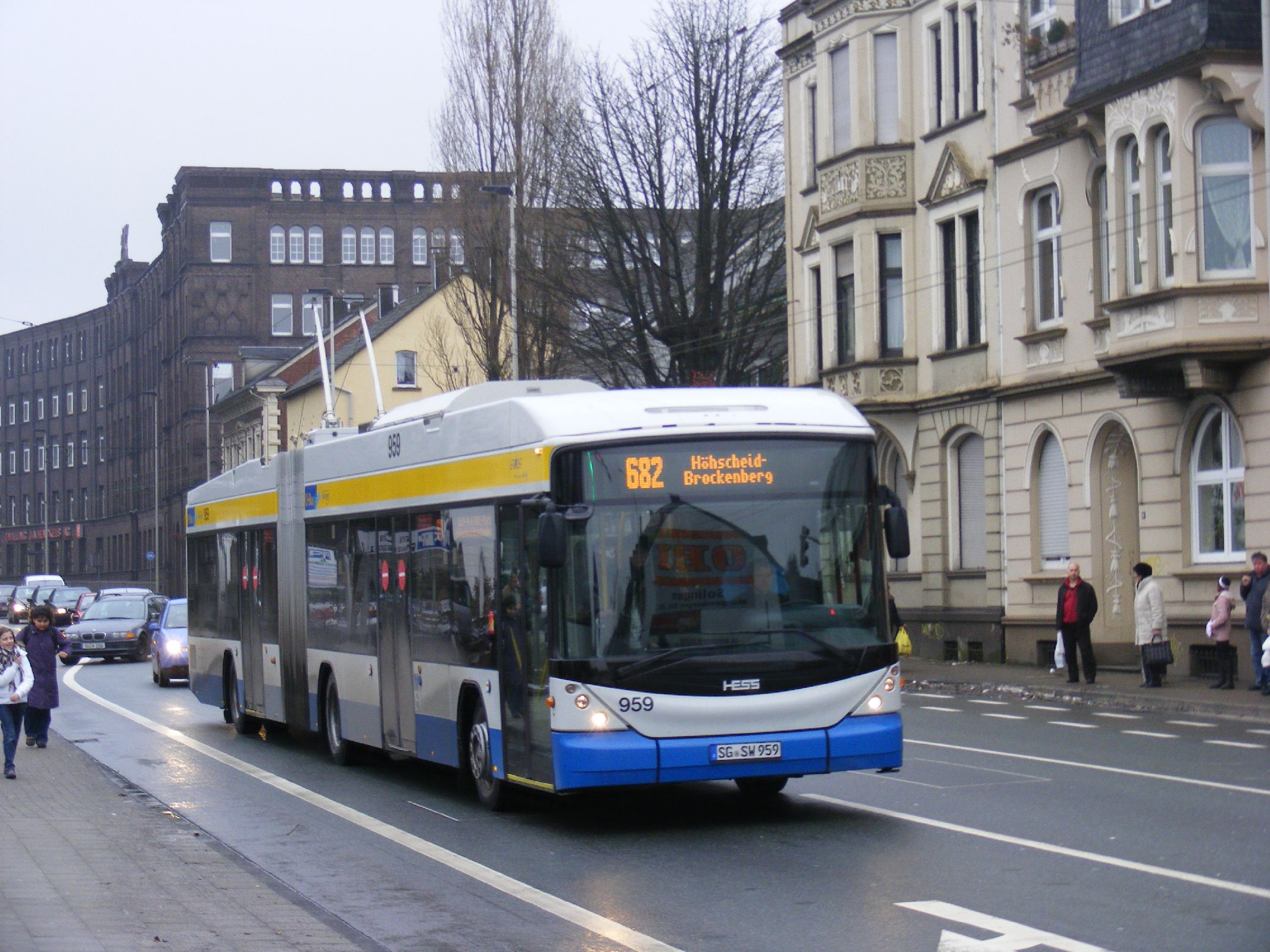 Grünewalder Str Solingen - obus linie 682, Hess trolleybus nr 959 SG-SW 959 In the background, the Zwillingswerk of J.A. Henckels, knife manufacturers